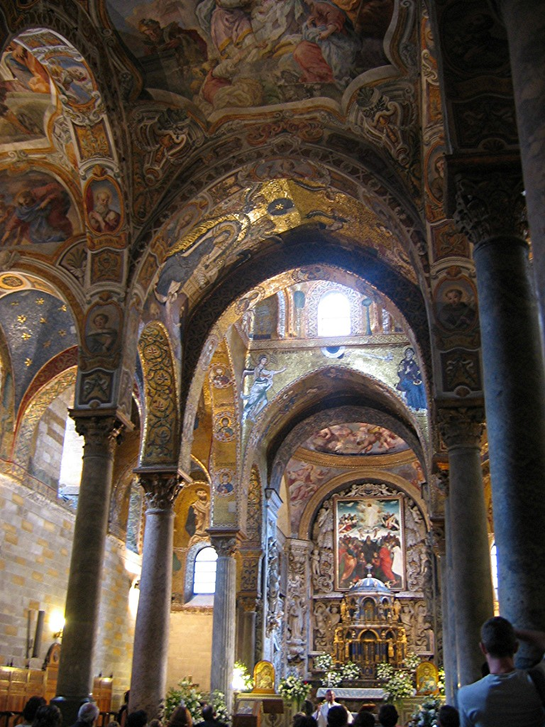 Martorana church, Palermo, Sicilia Author : Urban Body : Canon Powershot A80 Date : August, 2005